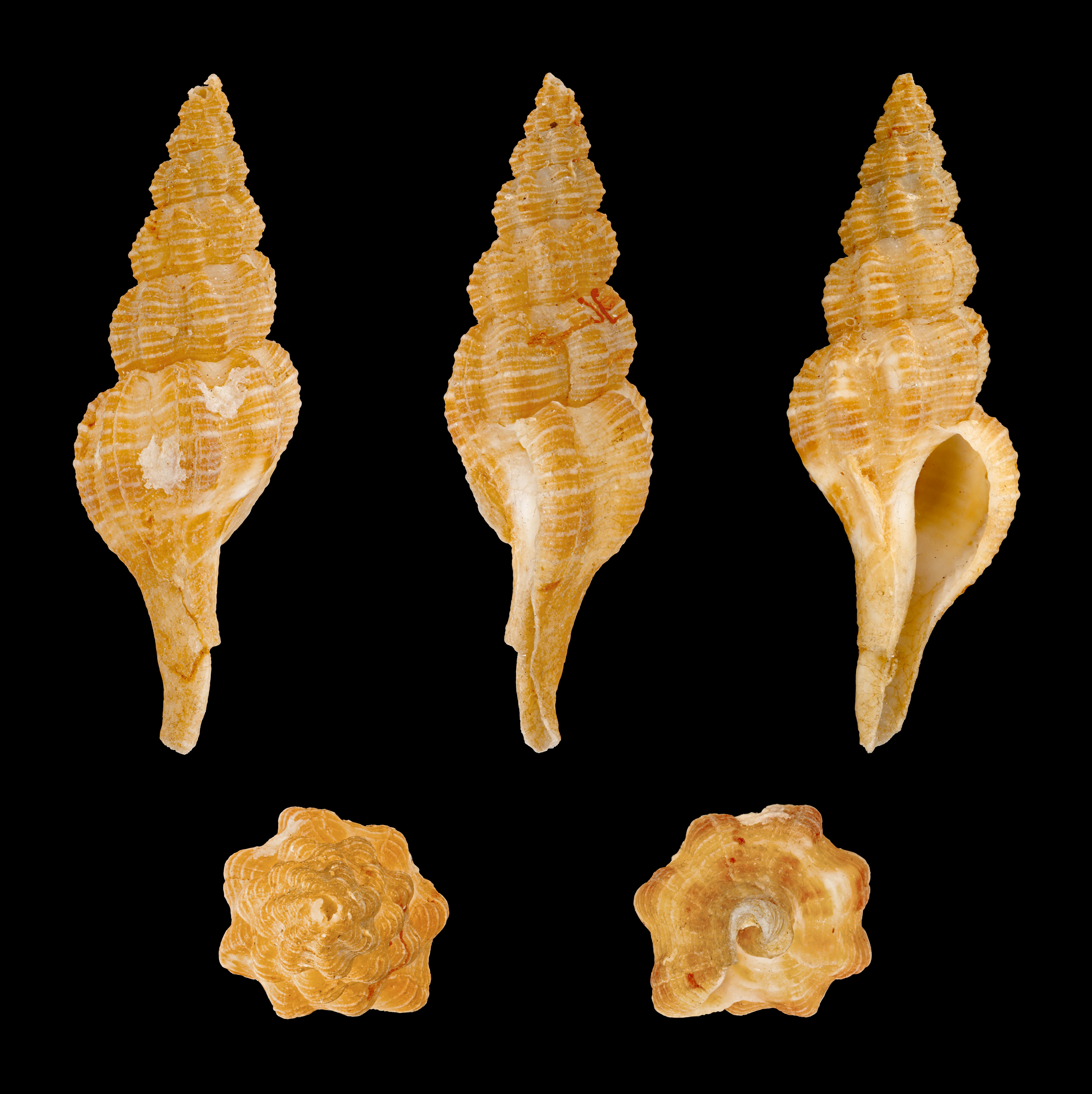 Length 3.3 cm; Originating from Panglao Island, Bohol, Philippines; Shell of own collection, therefore not geocoded. Dorsal, lateral (right side), ventral, back, and front view.